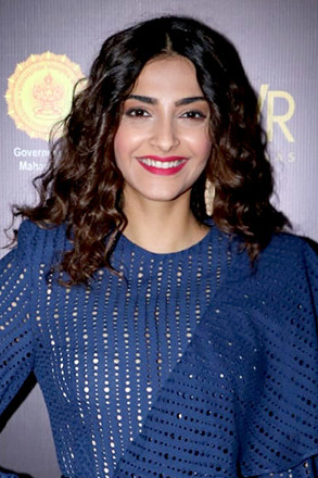 Sonam Kapoor at Jio Mami Mumbai film festival’s word to screen market, Aug 31, 2018